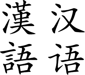 The Chinese characters "漢語/汉语" meaning the Chinese language, made using the 汉鼎简中楷/汉鼎繁中楷 truetype font